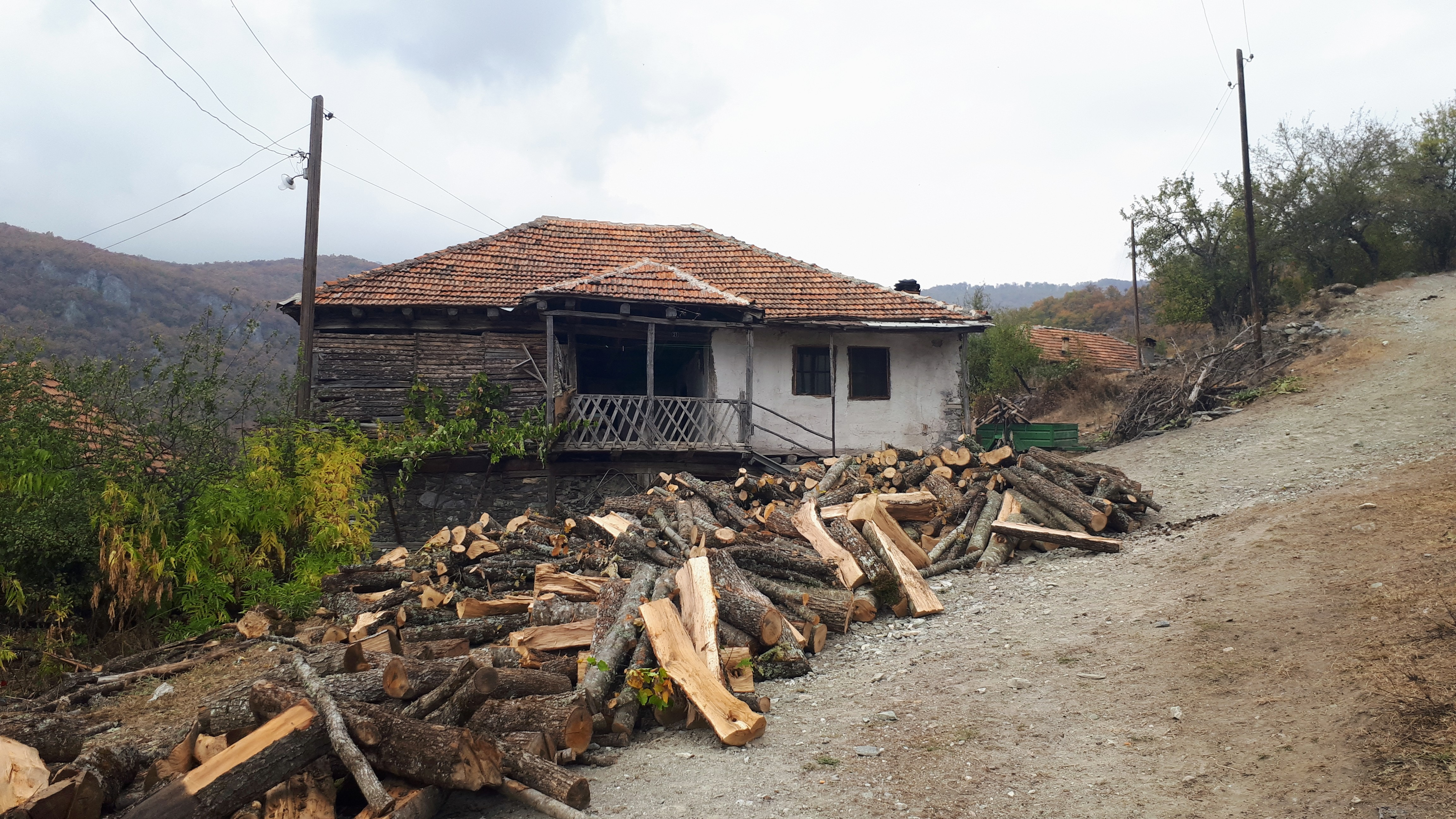 Old house in the village Javorec